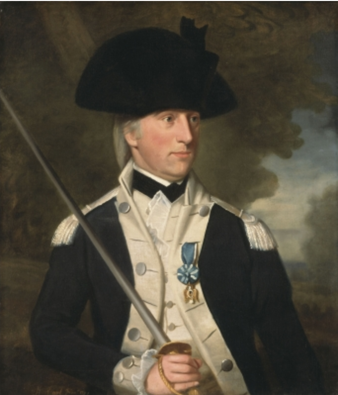 Richard Varick while an officer in the Continental Army